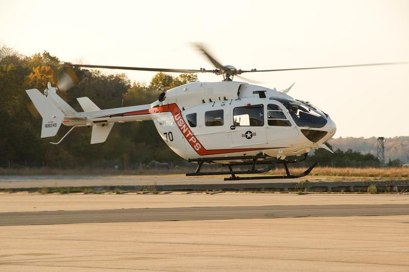 The first U.S. Navy EADS UH-72A Lakota (BuNo 168245) arrives at at Naval Air Station Paruxent River, Maryland (USA), for service with the U.S. Naval Test Pilot School.